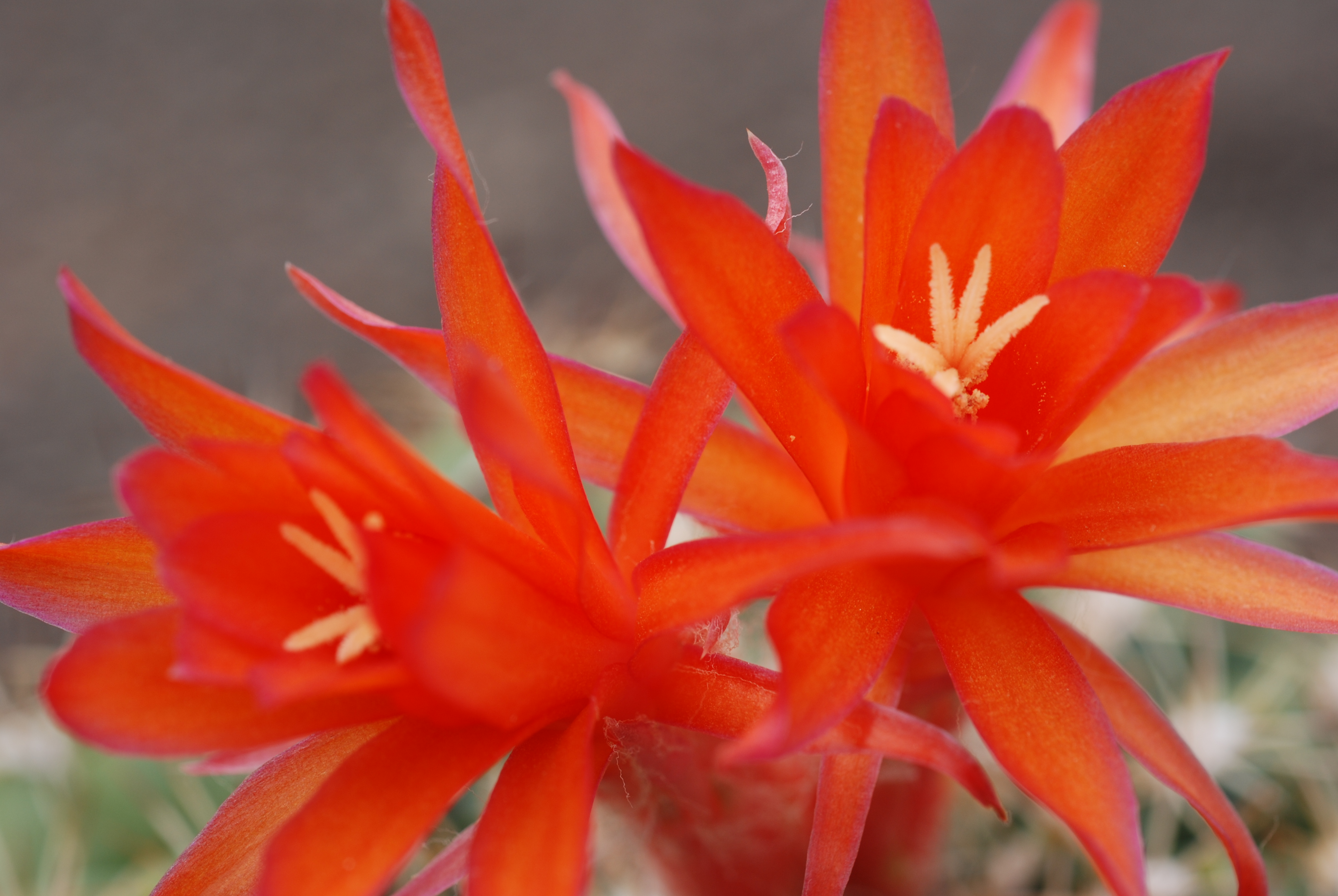 Matucana intertexta flowers growing at the National Botanic Garden of Belgium